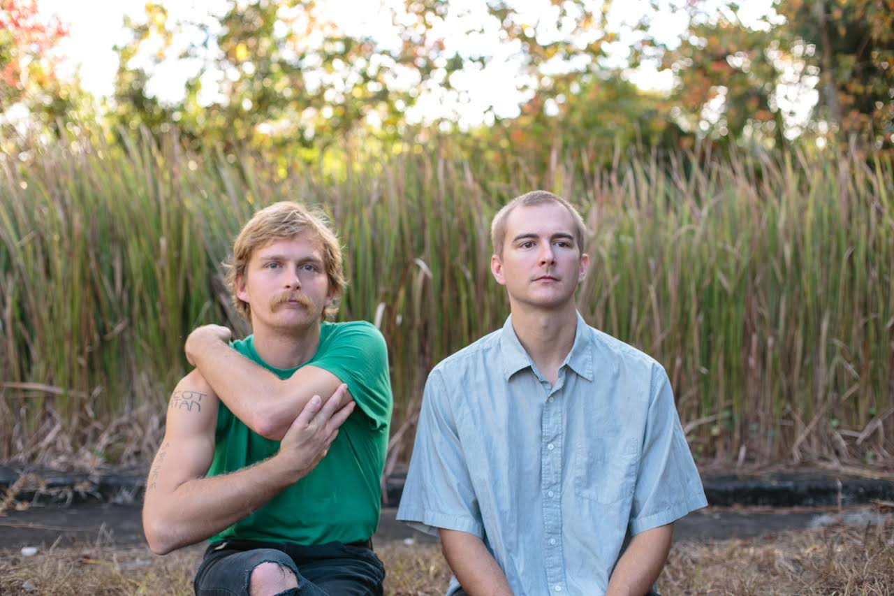 Left to right: Andy and Edwin White